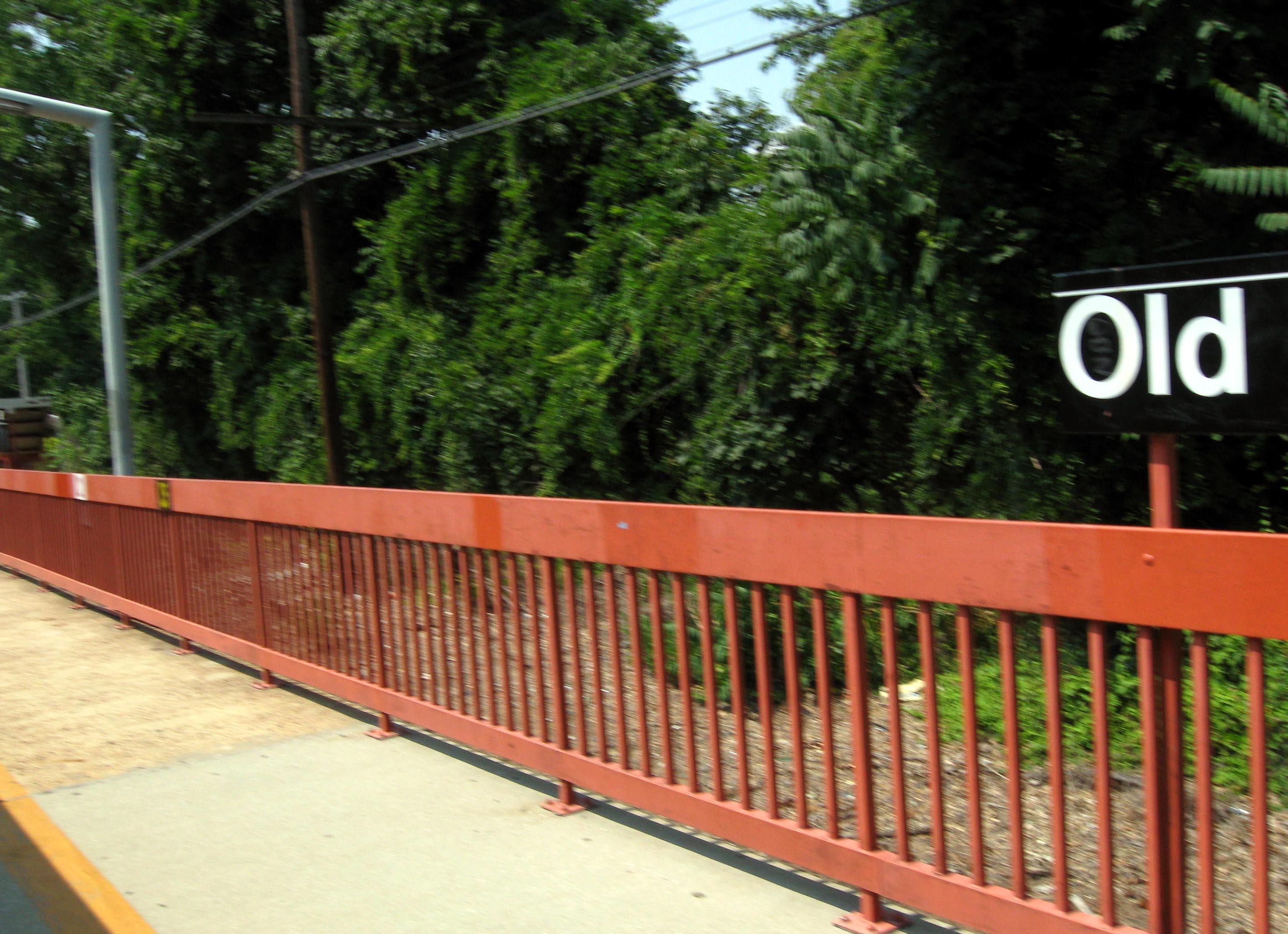 Looking west from southbound car at Old Town (Staten Island Railway station) southbound platform on a sunny late morning